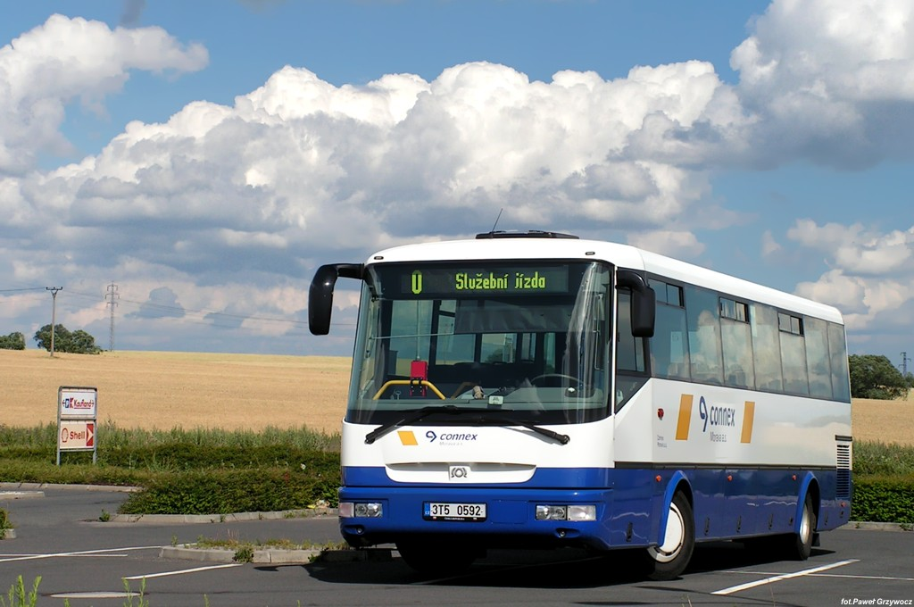 Bus SOR C10,5 from Connex Morava, Opava, Czech Republic.